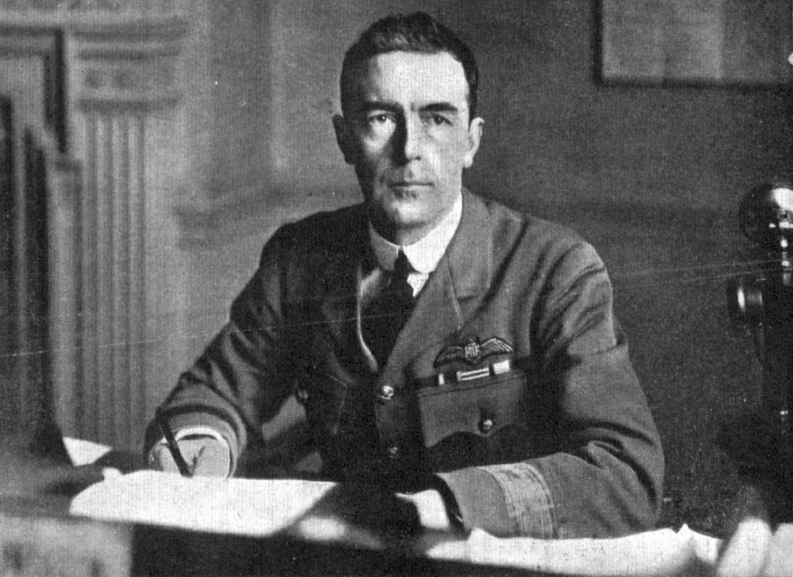 Brigadier-General R M Groves as Deputy Chief of the Air Staff.